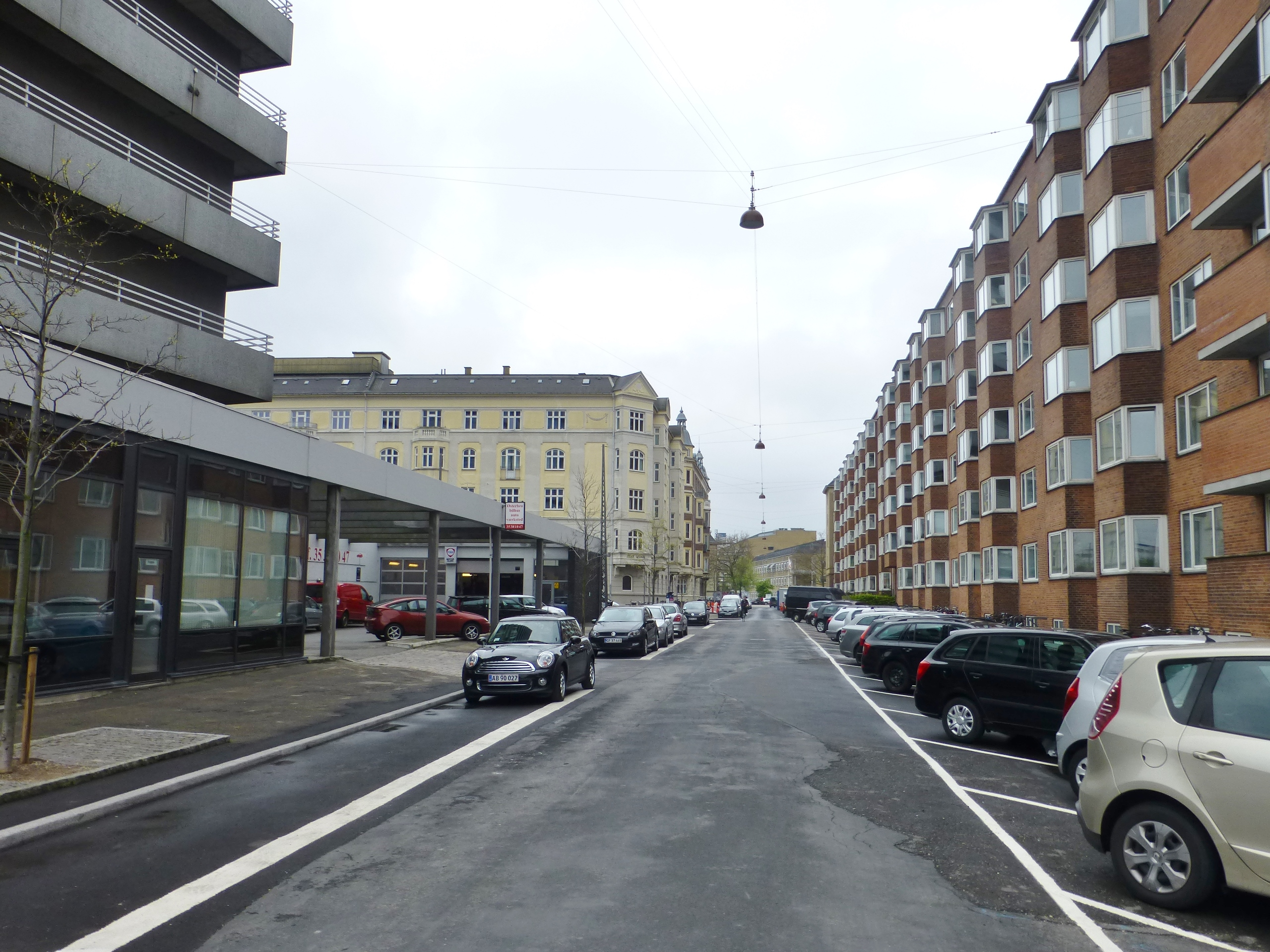 The street Lindenovsgade in Østerbro in Copenhagen.